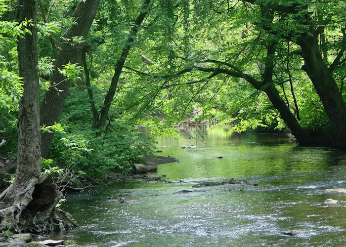 Darby Creek in Havertown PA